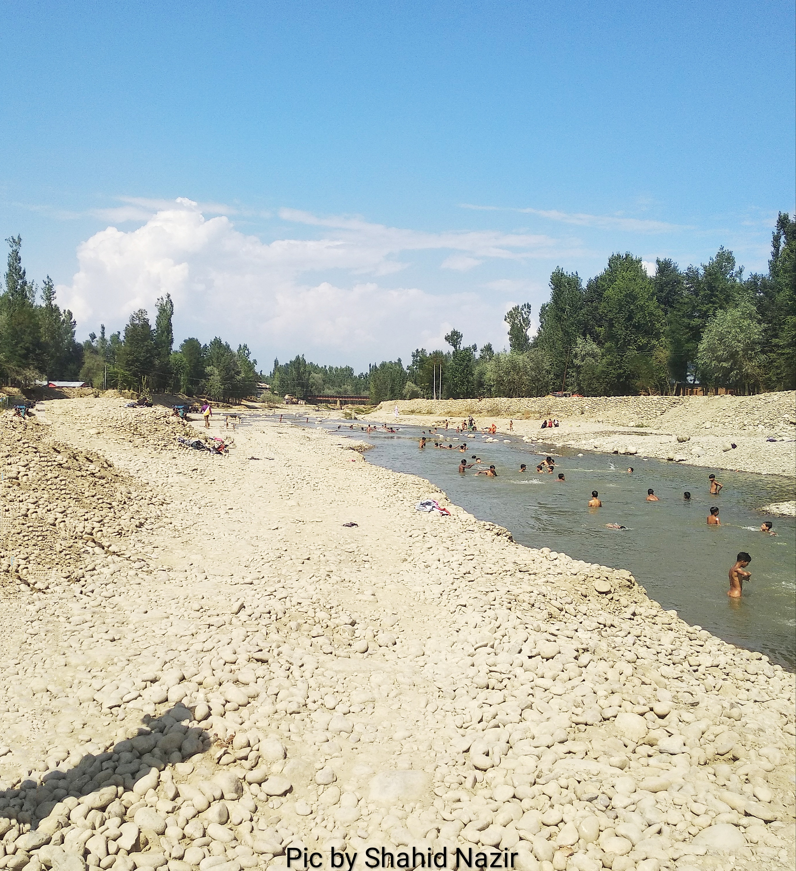 River sukhnag is a river originating in Tosa Maidan which flows from Beerwah and is a tributary Jhelum River in Jammu and Kashmir